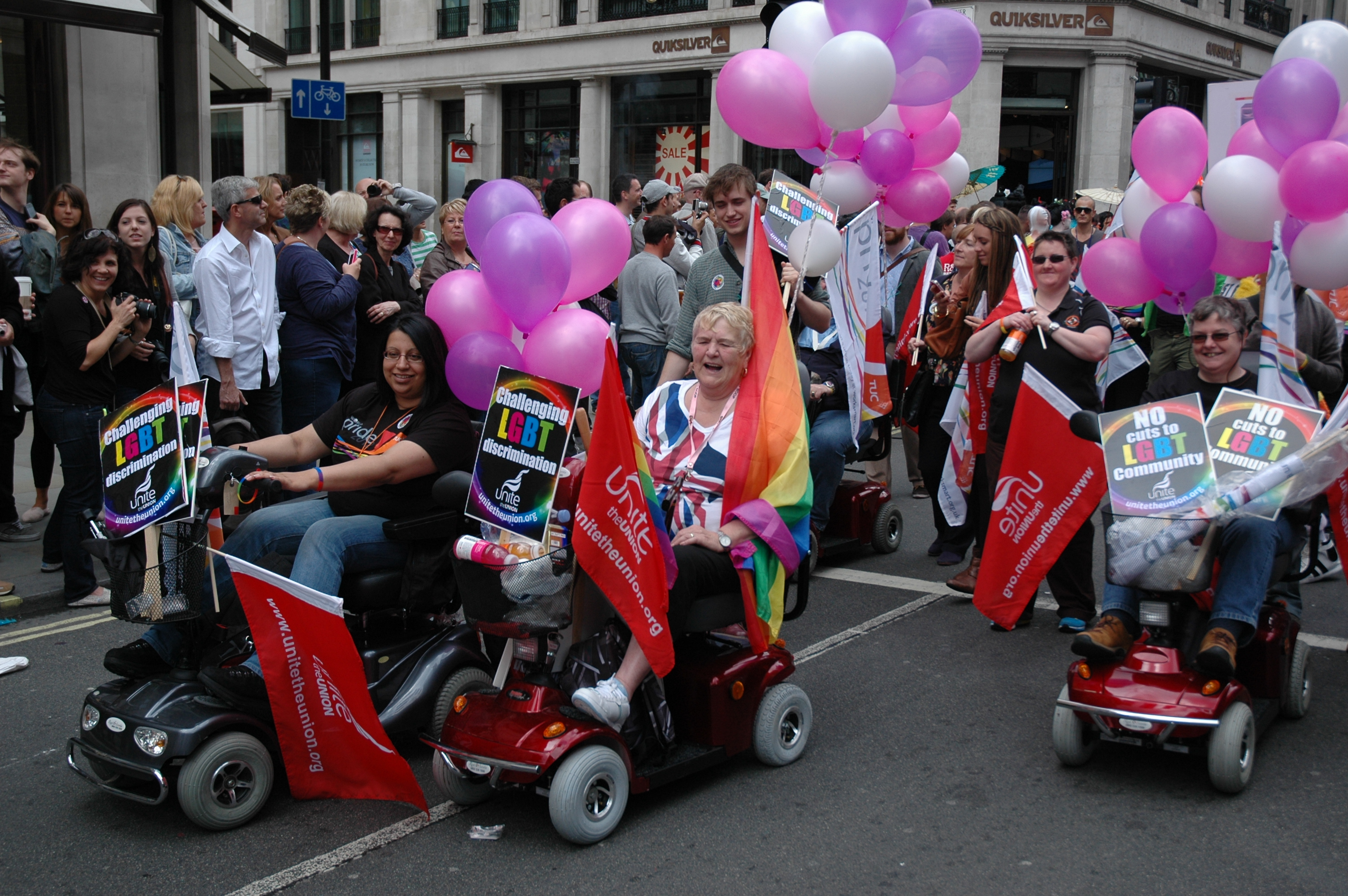 World Pride London 2012